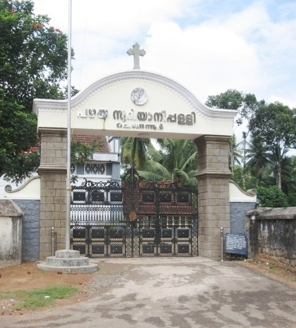 Gate Of Old Syrian Church